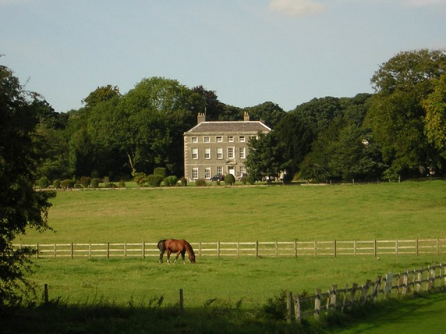 Thurcroft Hall Thurcroft Hall looks idyllic here, but is in reality just a stone's throw from a huge spoil heap and the ugly pit village of Thurcroft. A landscape and community shaped by coal mining.